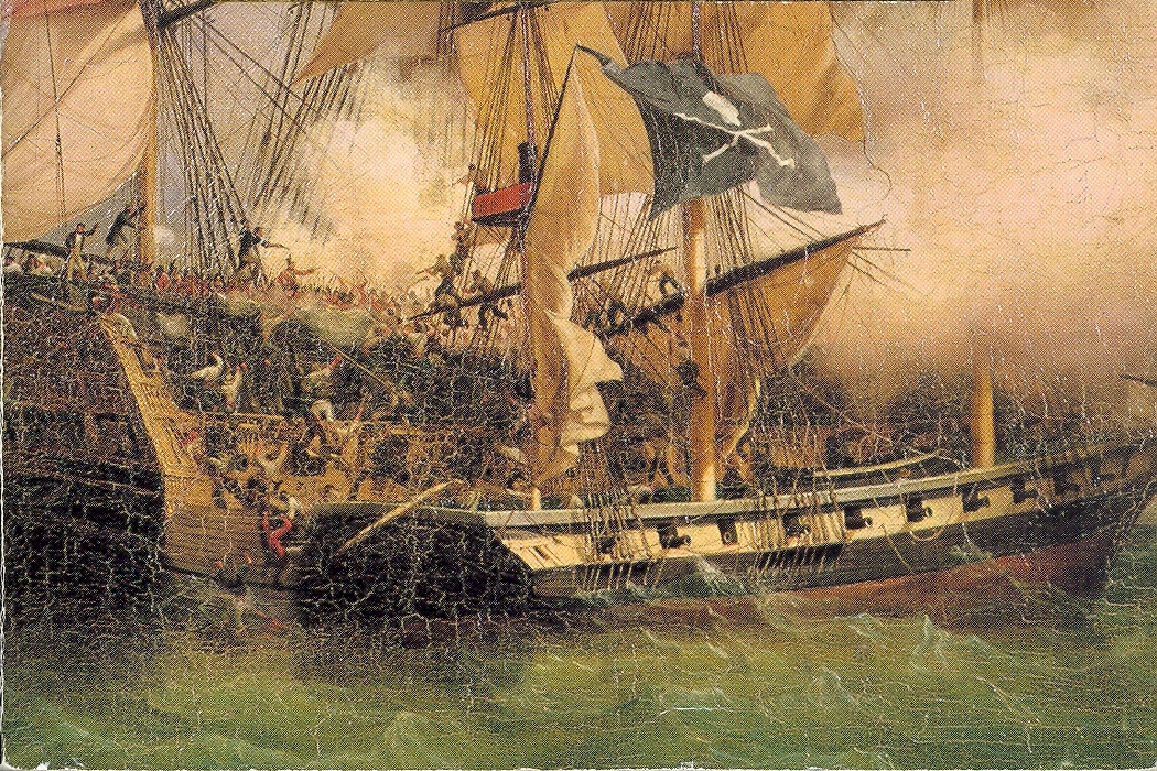 A painting showing a pirate ship attacking a merchants's ship. It appears to be a version of Ambrose Louis Garneray's La Prise du Kent par Surcouf, with a Jolly Roger added.